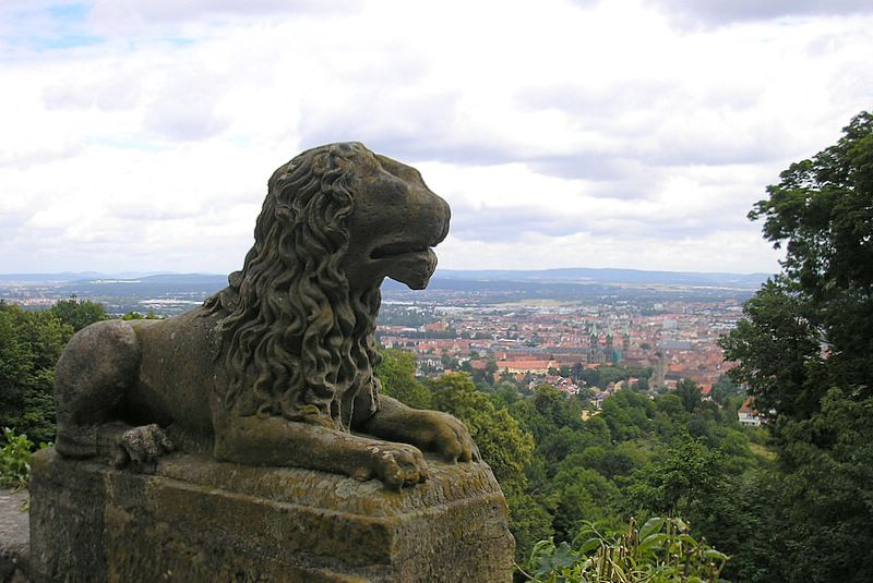 Altenburg castle (Bamberg, Upper Franconia, Germany). Lion at the east, looking down at the city